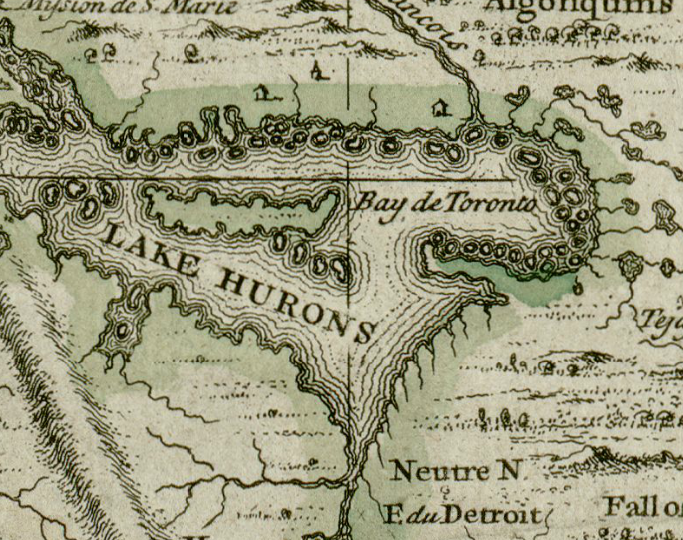 This is a section of a map that is part of the Darlington map collection housed in the Archives Service Center, University Library System, University of Pittsburgh, [1] Pittsburgh, PA US The original map from which this portion was taken can be found here.